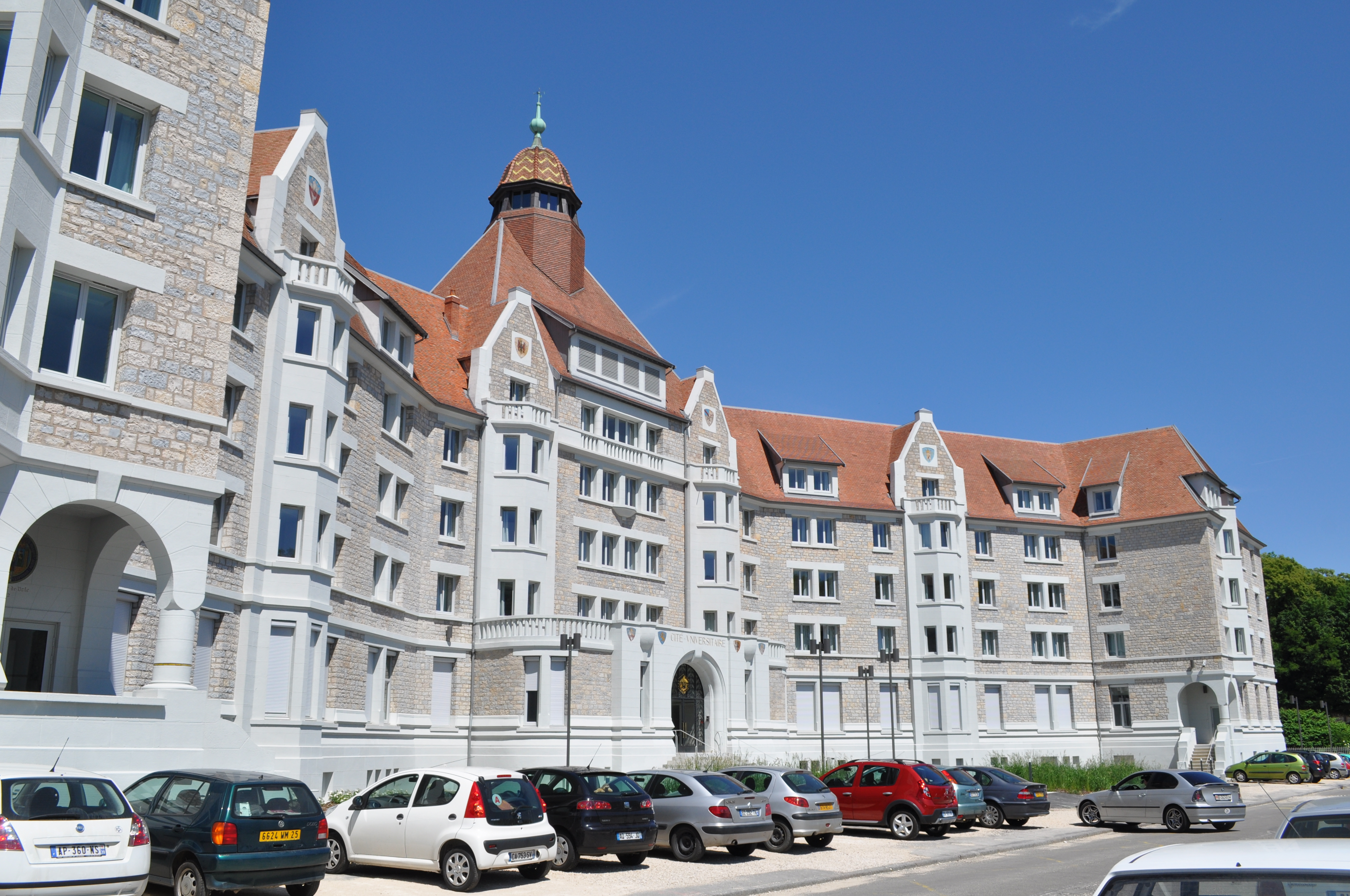 Student housing in Besançon, Franche-Comté, France.